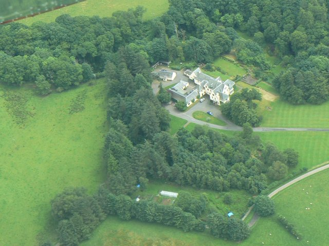 Auchmar House This became the family seat of the Duke of Montrose sometime after the family left Buchanan Castle in 1925.